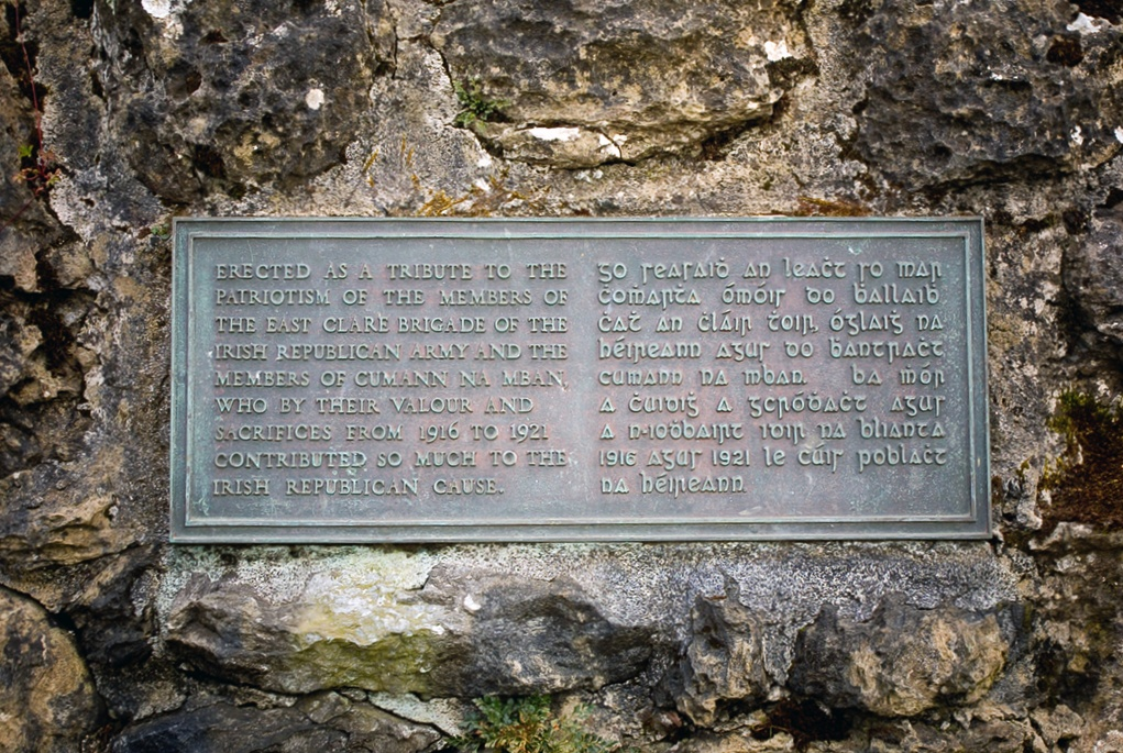 Memorial Plaque, 1916 (Easter Rising) - 1921, (IRA, East Clare Brigade, and Cumann na mBan), in Tuamgraney, Co. Clare, Ireland. Text in English (left) and Gaeilge (right)